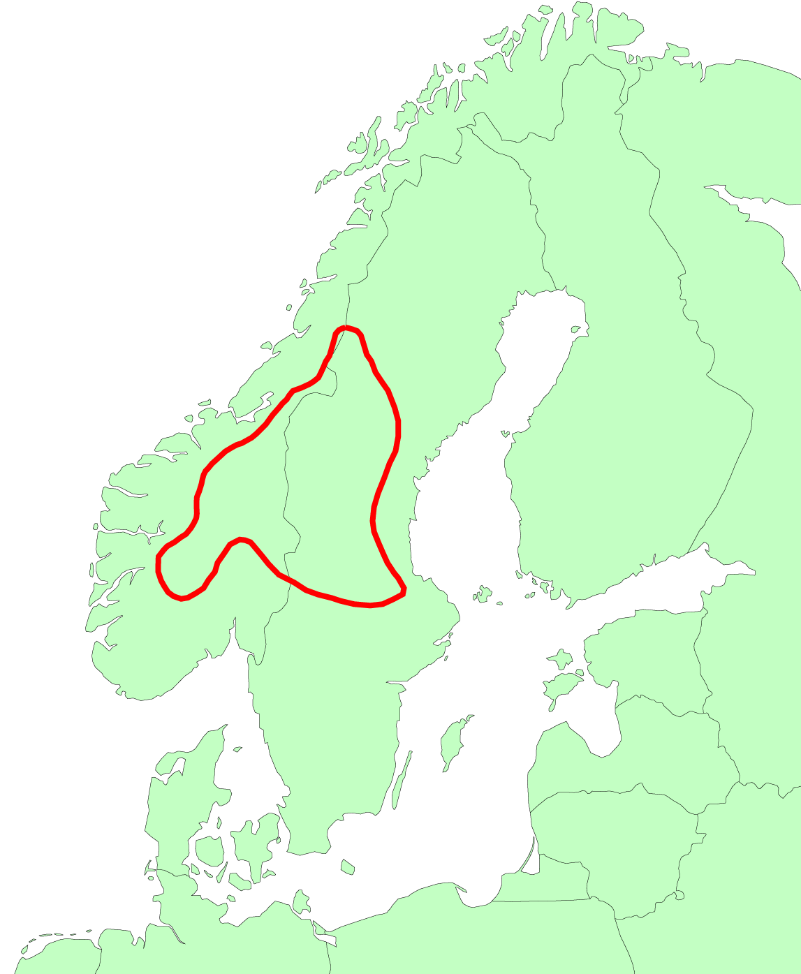 The occurrence of forest and mountain graves in Norway and Sweden, according to Jostein Bergstøl i Fangstfolk og bønder i Østerdalen (1997). Graves in southern Lapland are missing.